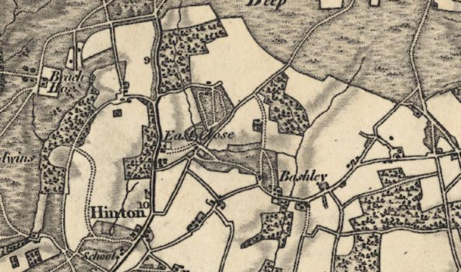 Map of East Close Hinton, Hampshire in 1846